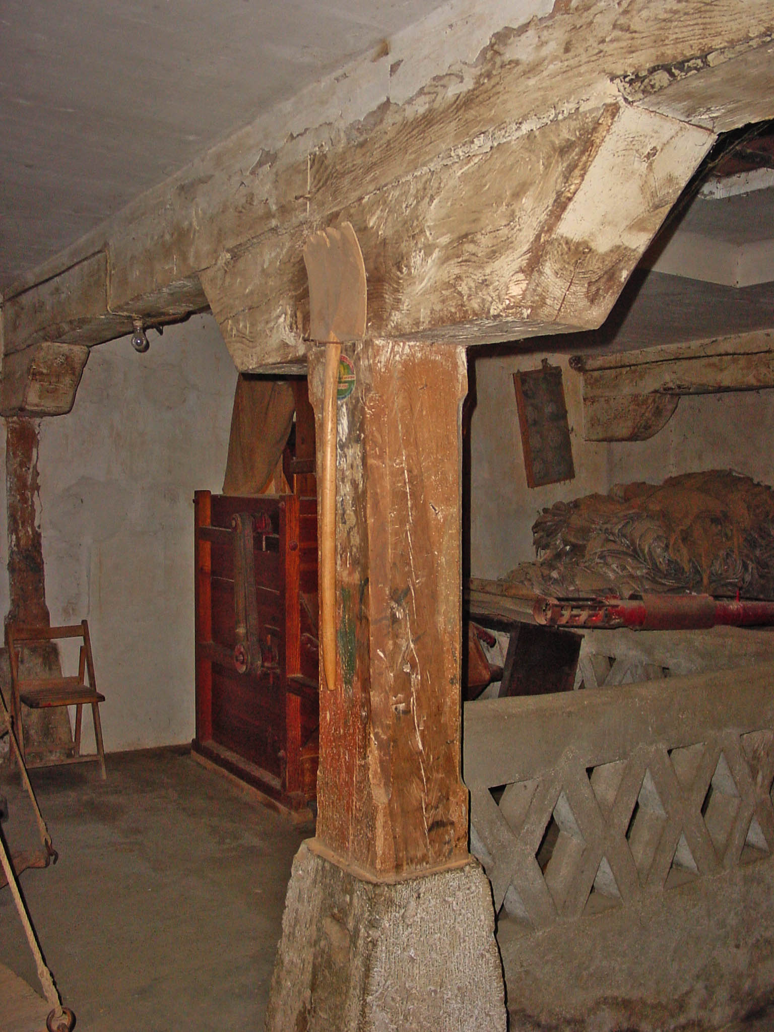 Factory of flour San Antonio, at the dock of the Channel of Castile in Medina de Rioseco, Valladolid Spain. Right foot.